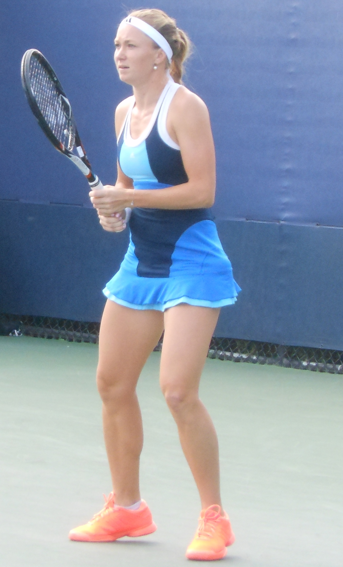 Julia Glushko of Israel at the US Open 2013